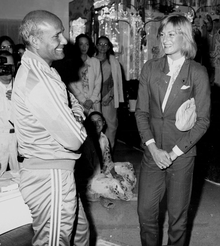 Allison Roe and Sri Chinmoy.